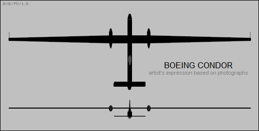 Boeing Condor